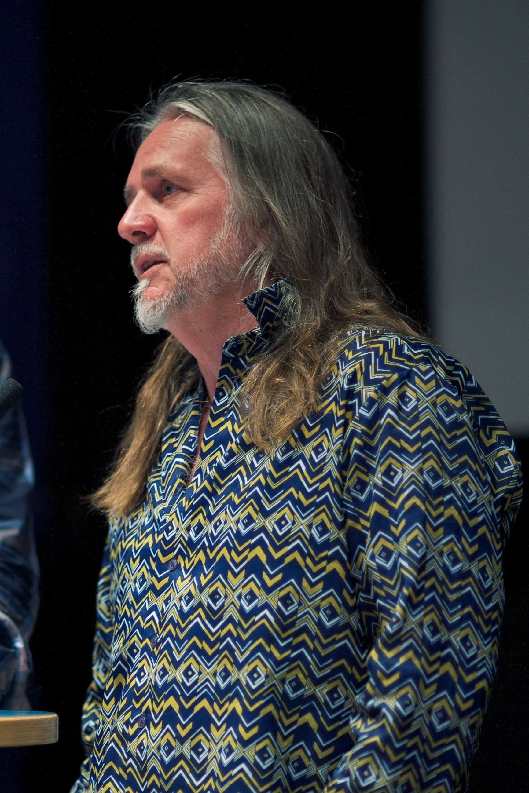 Film: The Miscreants of Taliwood. Foto av Carsten Aniksdal.